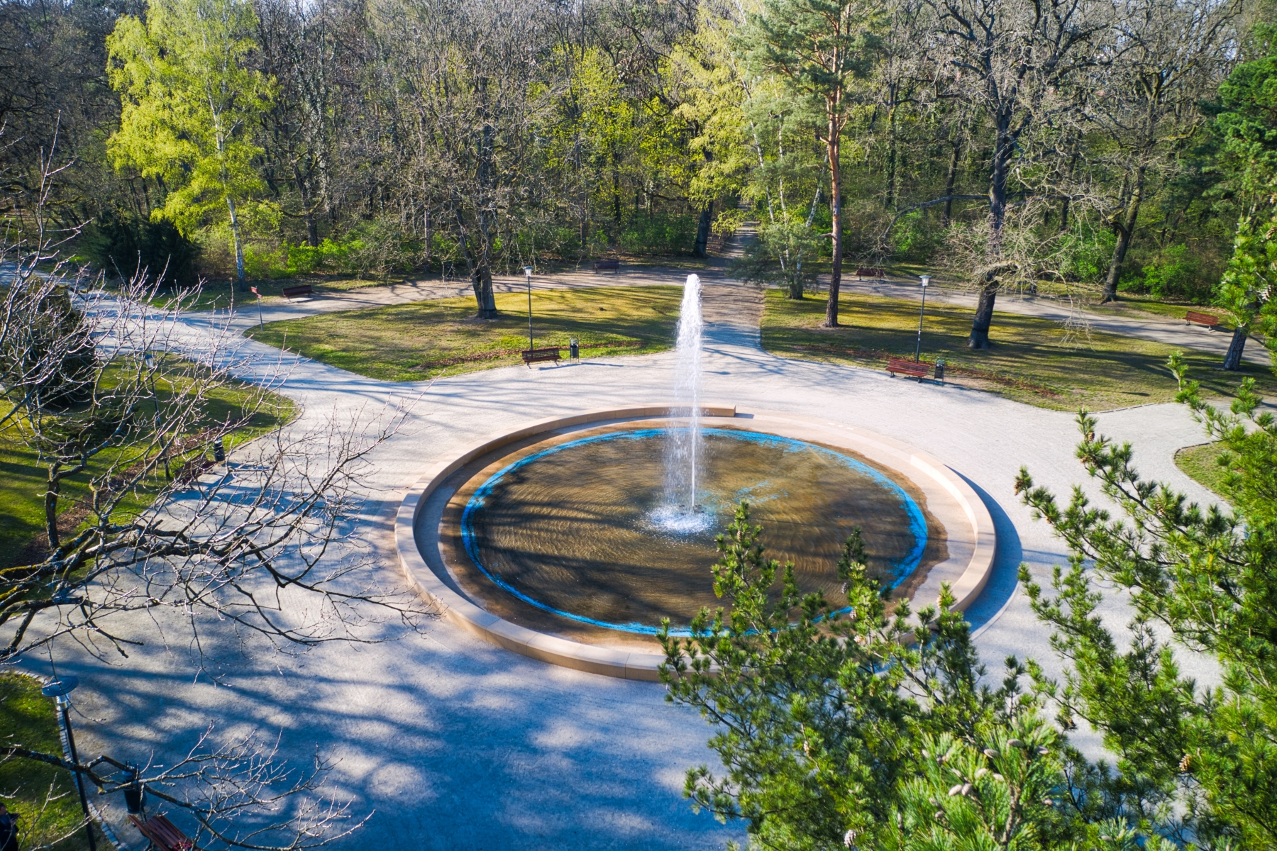 Brunnen im Stadtpark Fürstenwalde